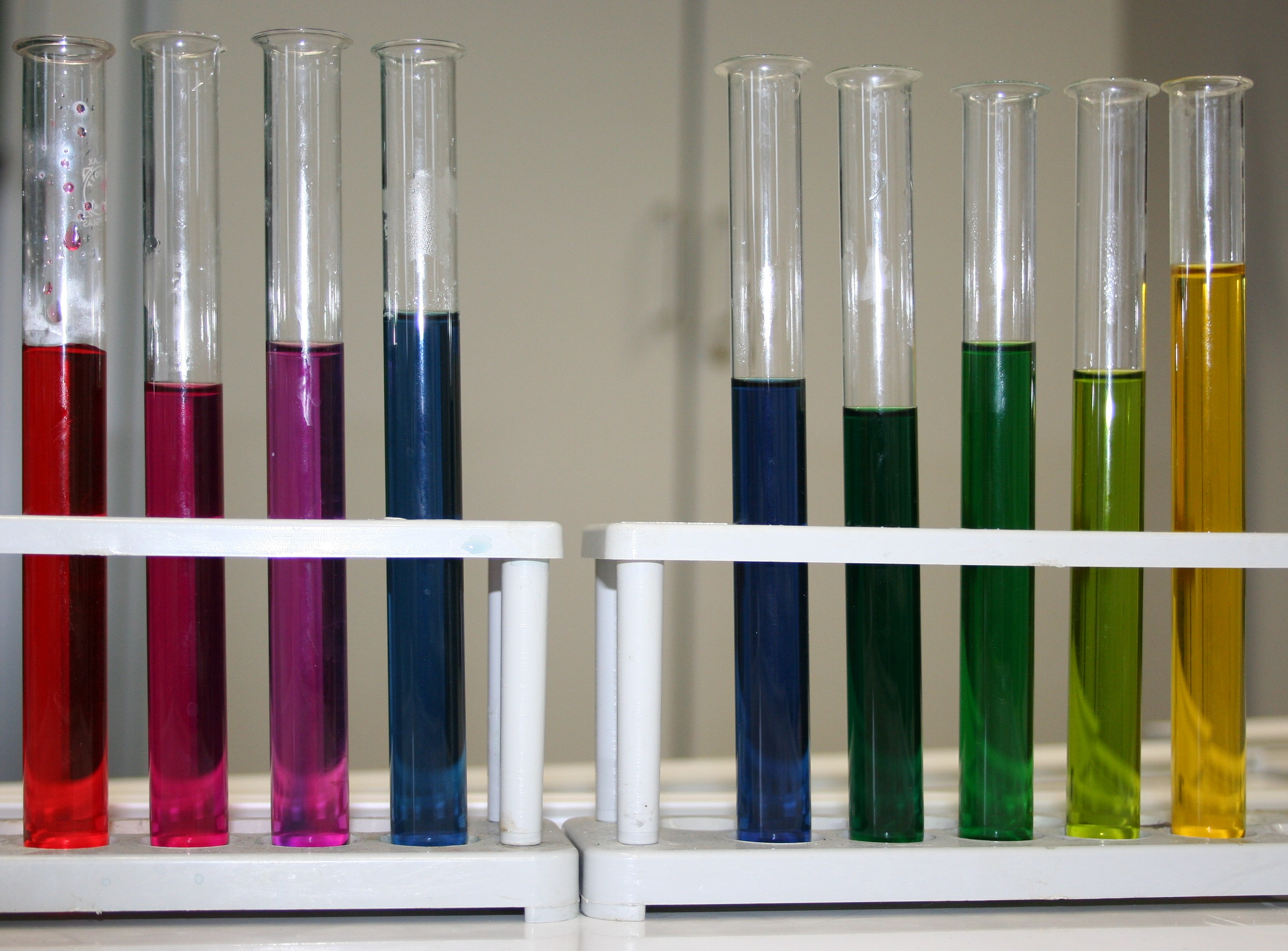 natural pH indicator Red Cabbage (left side acidic, right alkaline)